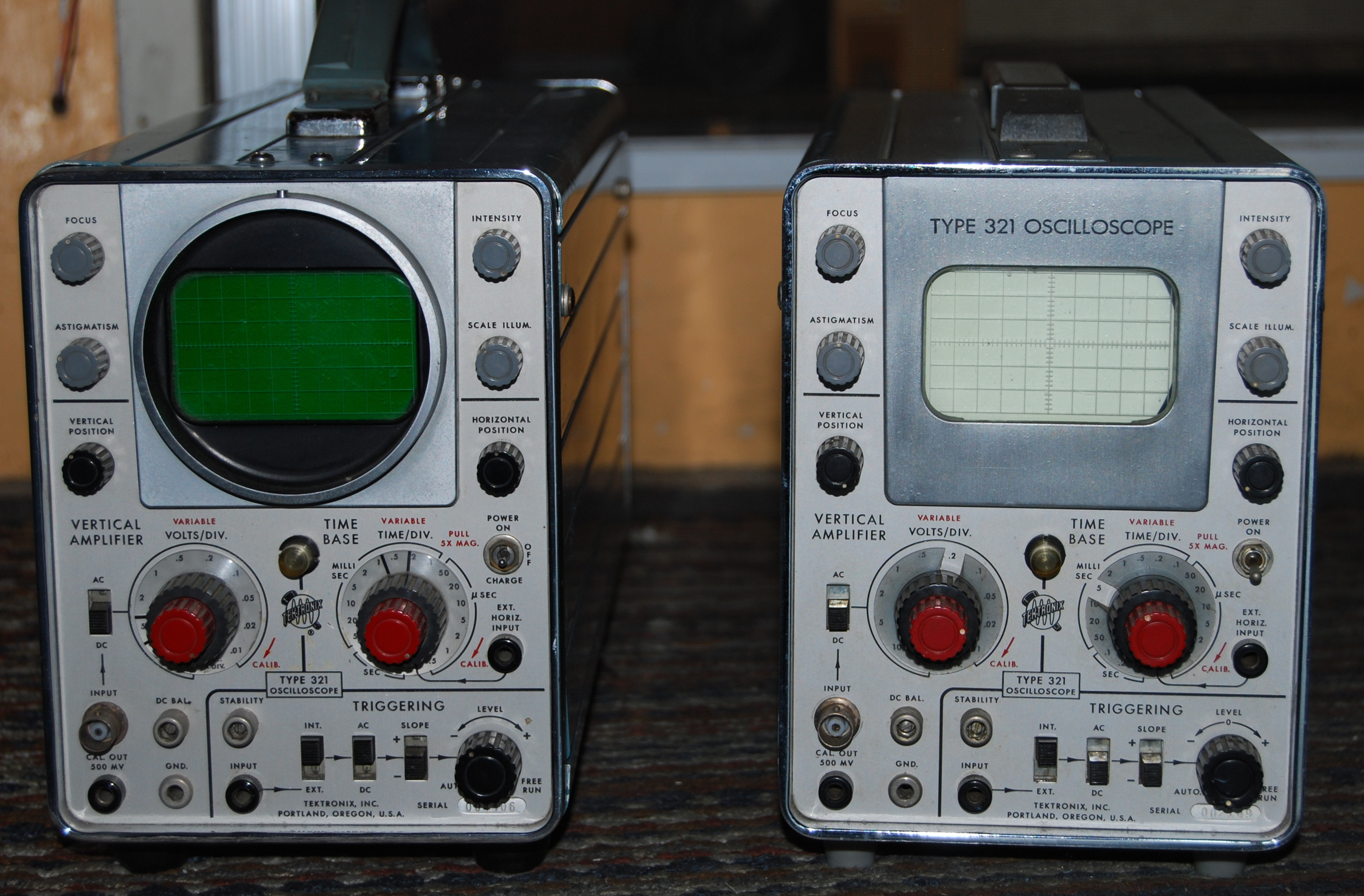 In 1961 Tektronix markets the model 321 oscilloscope. Totally portable (rechargeable batteries or AC) and Transistorized.